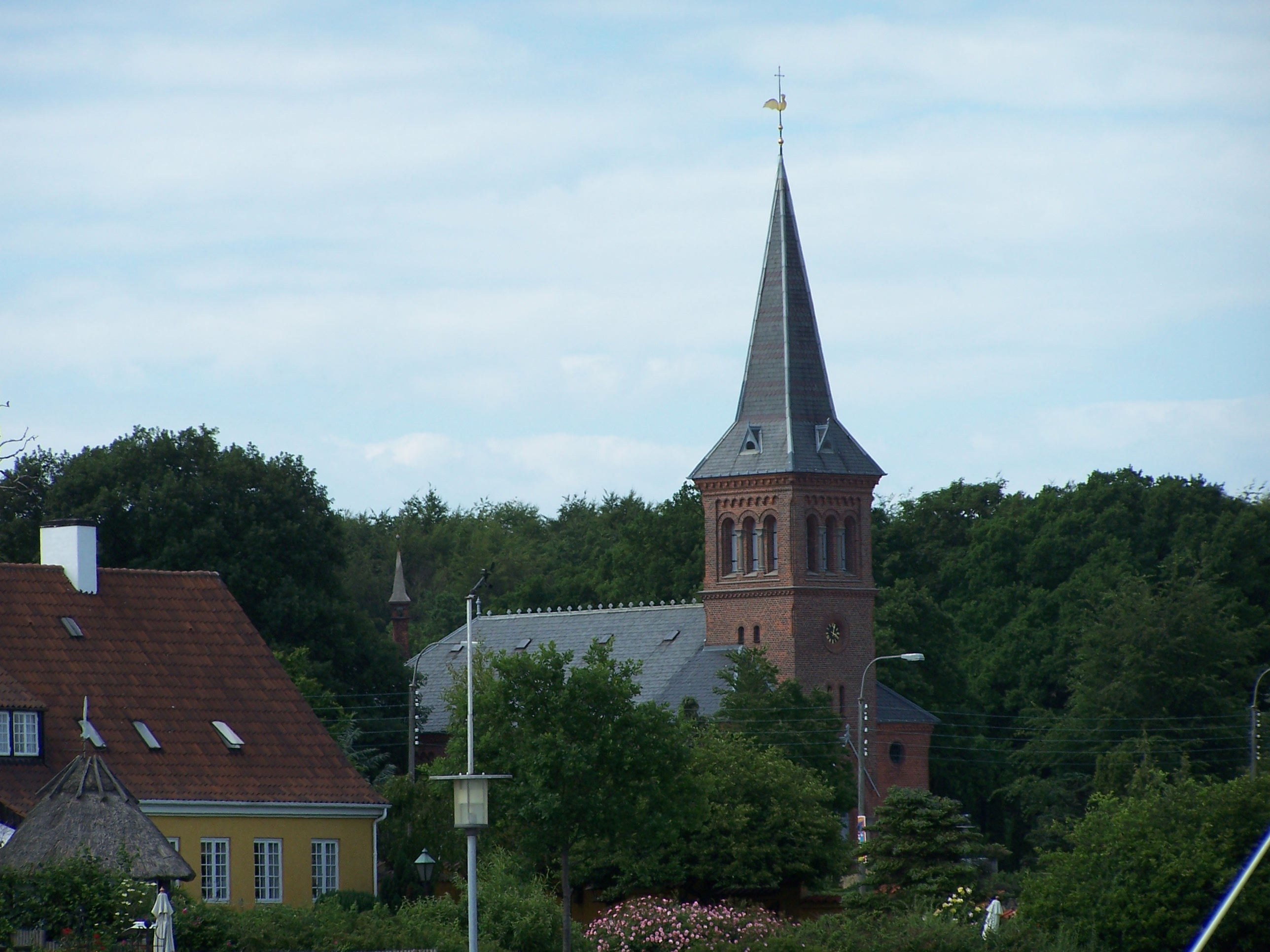 Egebæksvang Church, at Espergærde, Denmark